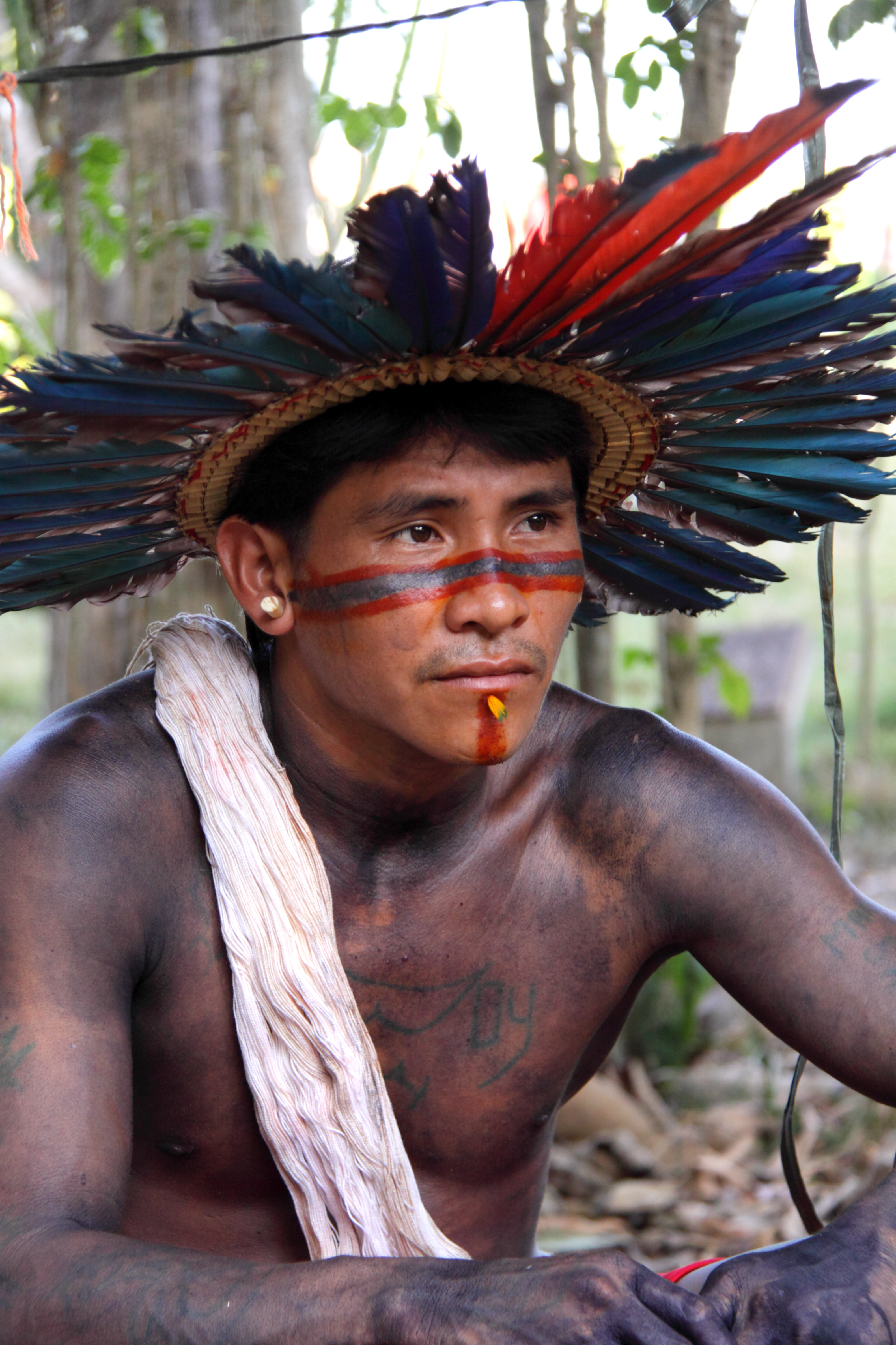 indian of south america, Assurini from Para Province, Brasil